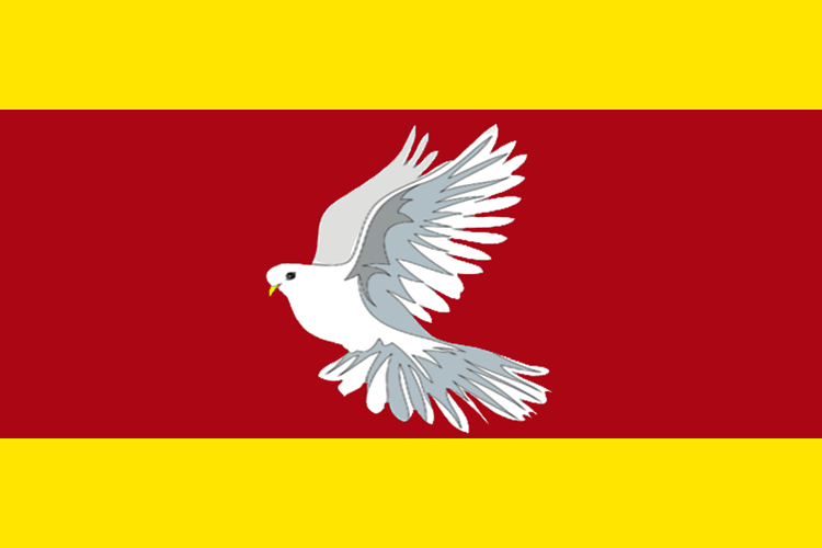 Flag of Gulkevichi, Krasnodar Territory, Russia